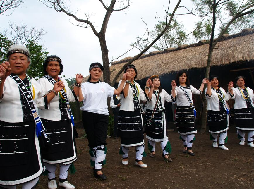 Women of Kebalan.